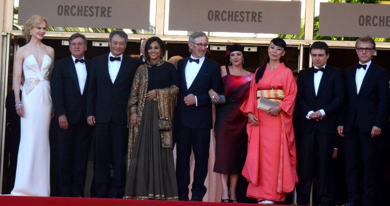 The main competition jury at the Cannes film festival